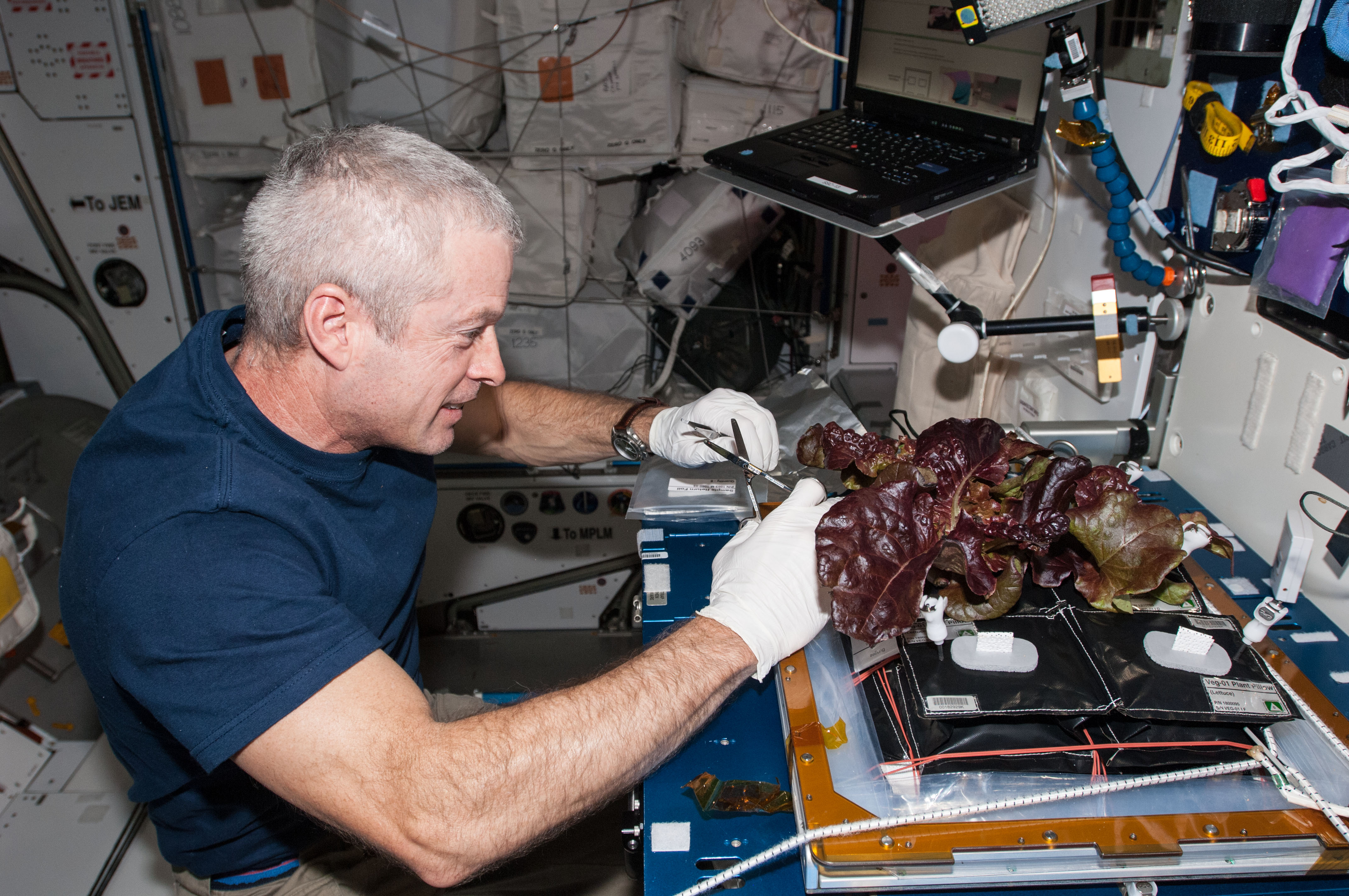 In the International Space Station's Harmony node, NASA astronaut Steve Swanson, Expedition 40 commander, harvests a crop of red romaine lettuce plants that were grown from seed inside the station's Veggie facility, a low-cost plant growth chamber that uses a flat-panel light bank for plant growth and crew observation. For the Veg-01 experiment, researchers are testing and validating the Veggie hardware, and the plants will be returned to Earth to determine food safety.